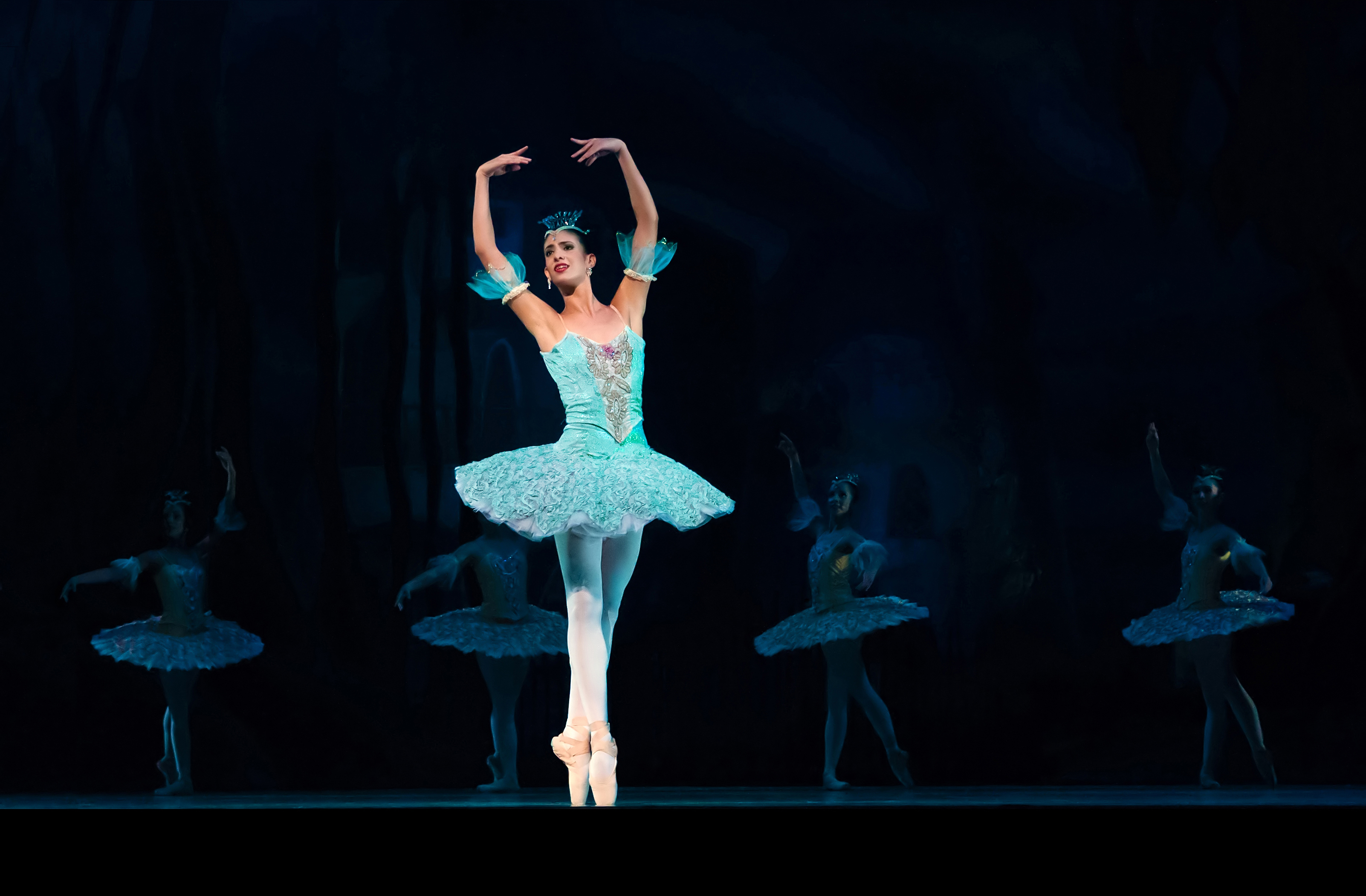 Music: Ludwig Minkus. Choreography: Laura Fiorucci, based on the original by Marius Petipa. Susan Bello and Henry Montilla with the Ballet Teresa Carreño, at the Teresa Carreño Theater in Venezuela, October 18, 2013.